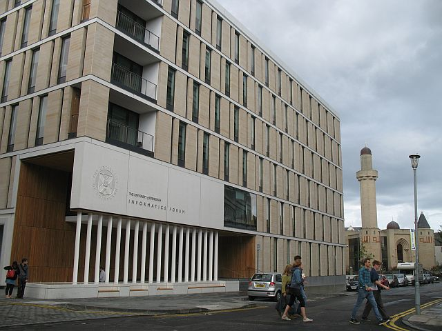 Informatics Forum. A new university building on what was for decades a car park in a gap site. Covers a whole block. Potterow Mosque in the background.